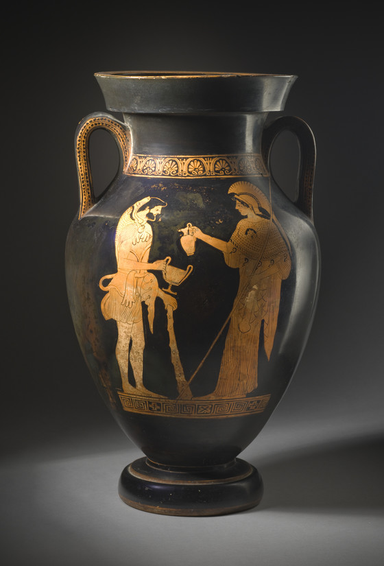 Obverse of the red-figure amphora attributed to the Deepdene Painter: Athena pouring a libation for Heracles.